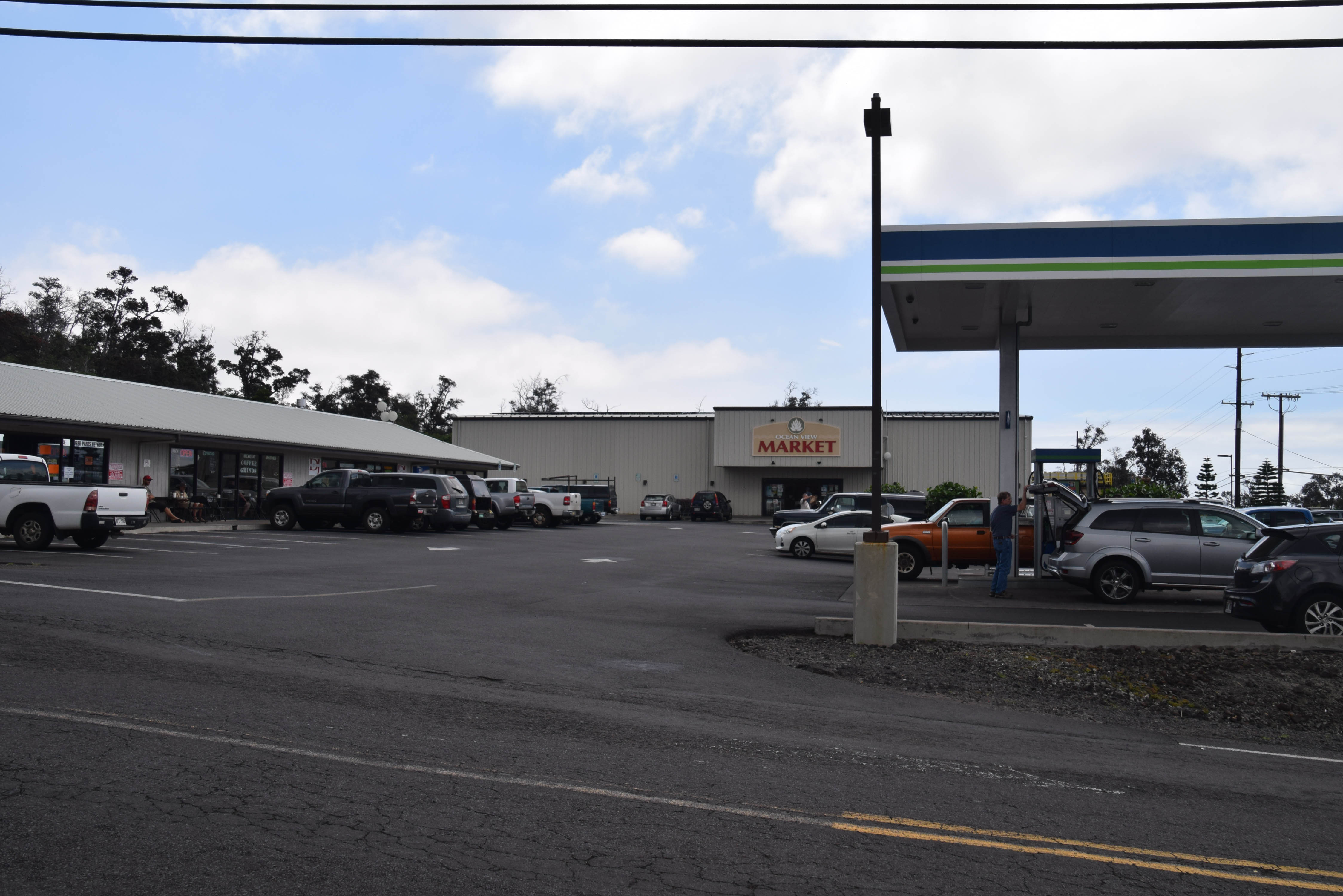 A shopping center in Ocean View, Hawaii